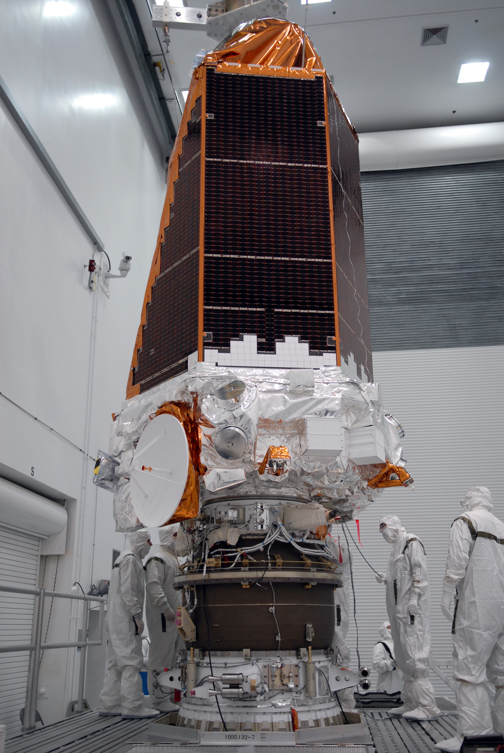 Kepler space telescope shortly after the assembly tho the third stage of its Delta II 7925.